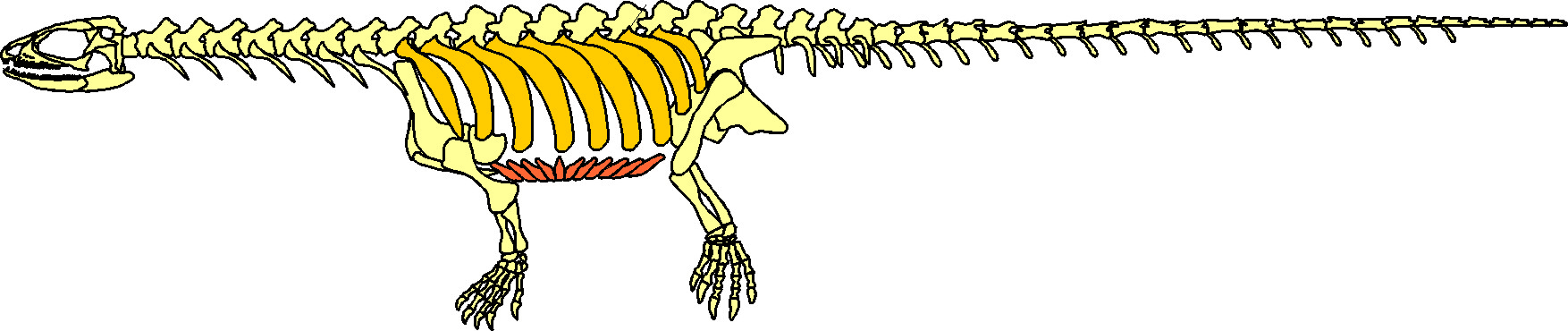 Skeletal restoration of Pappochelys rosinae